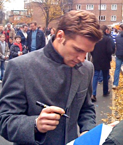 Ákos Buzsáky signing a QPR fan's shirt outside Loftus Road Staudium